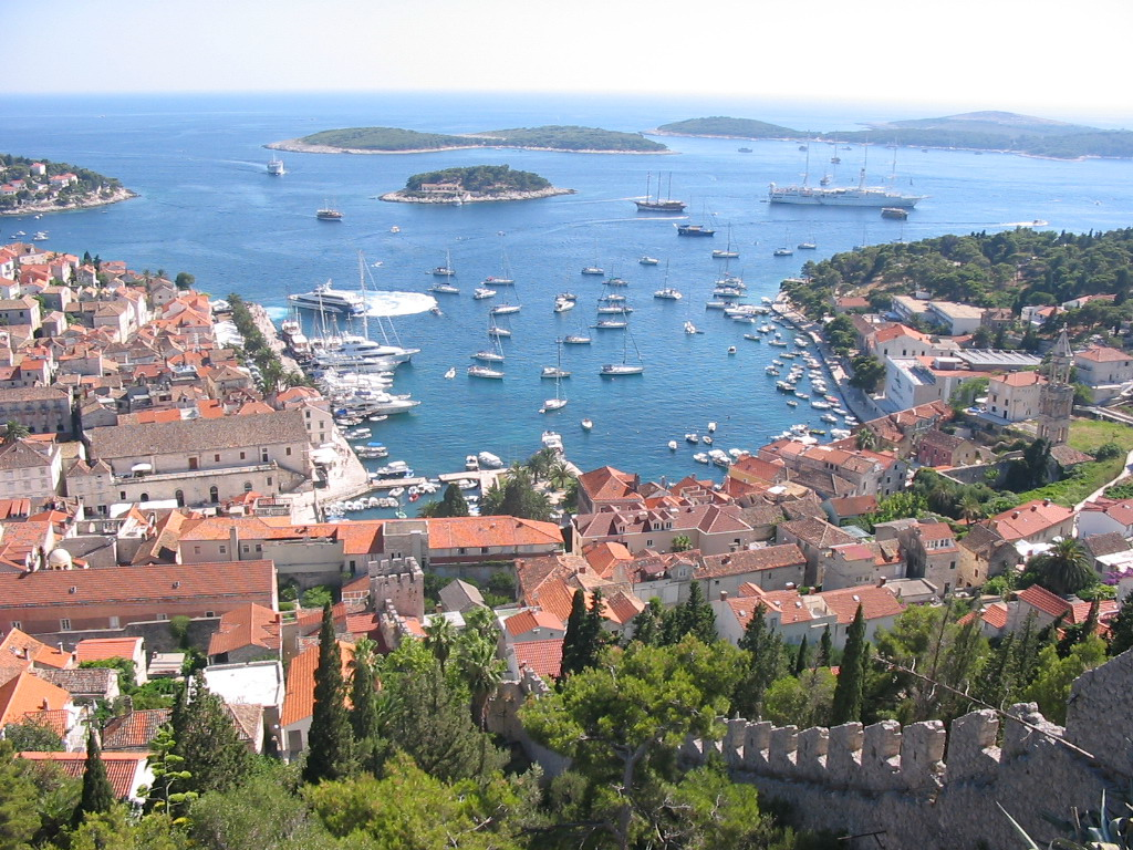 Picture from the castle of the beautiful port/harbour of the town of Hvar